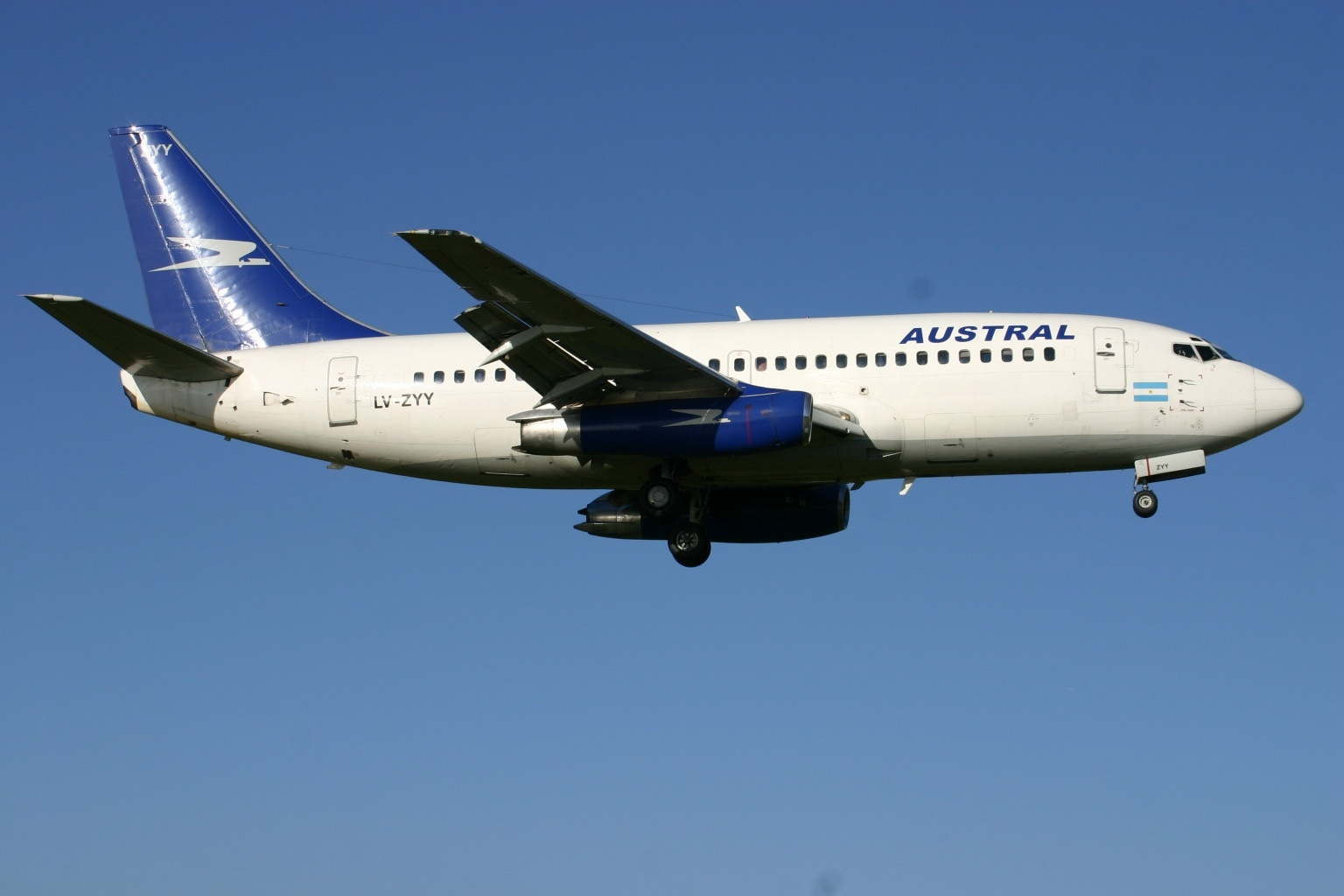 At Buenos Aires Aeroparque